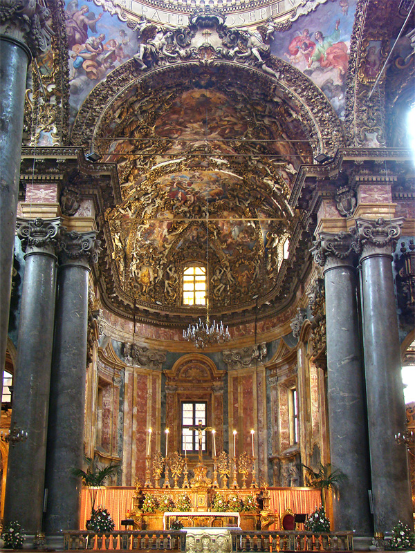 Church of San Giuseppe dei Teatini, Palermo, Sicily, Italy.